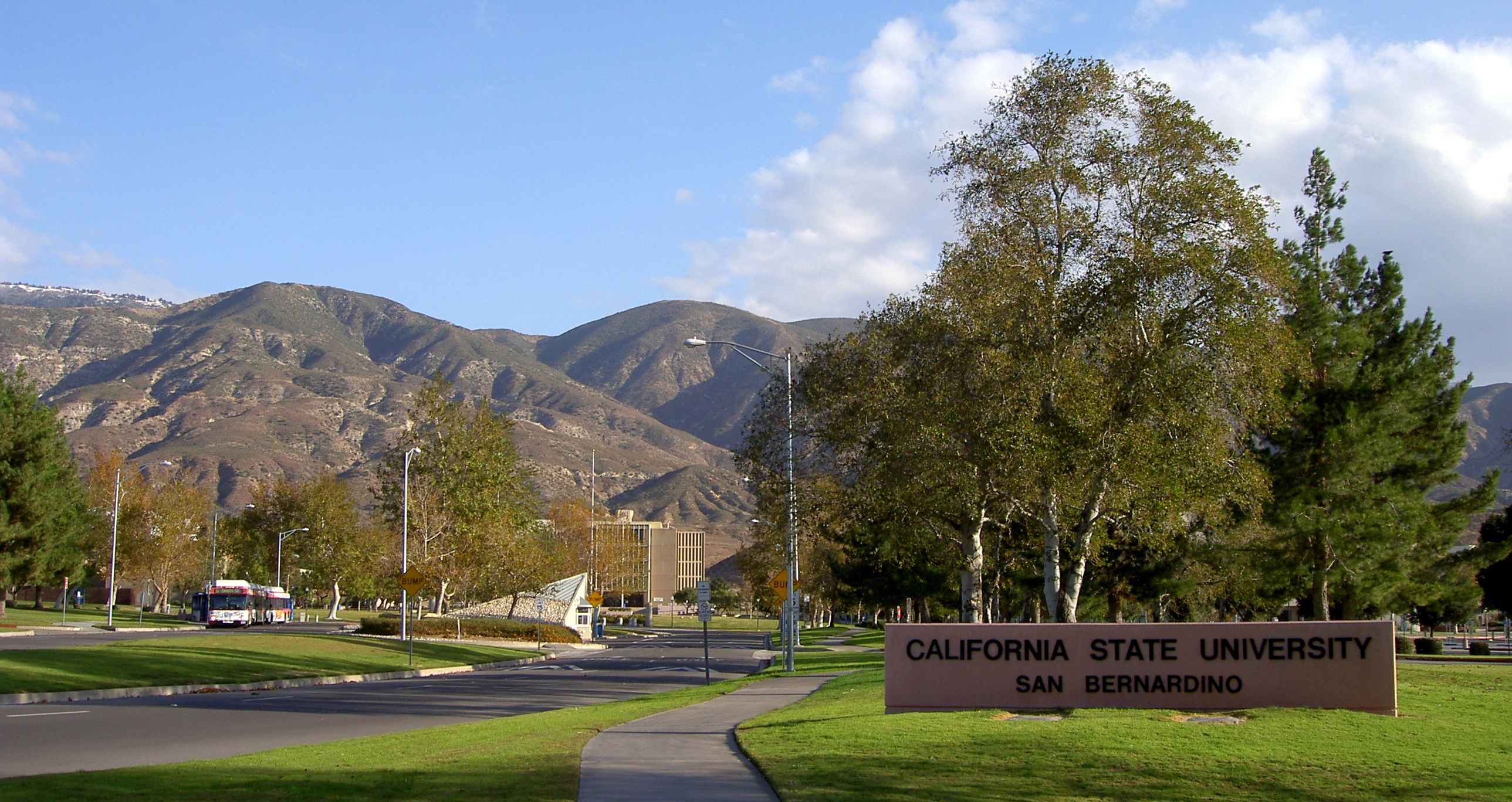 CSUSB